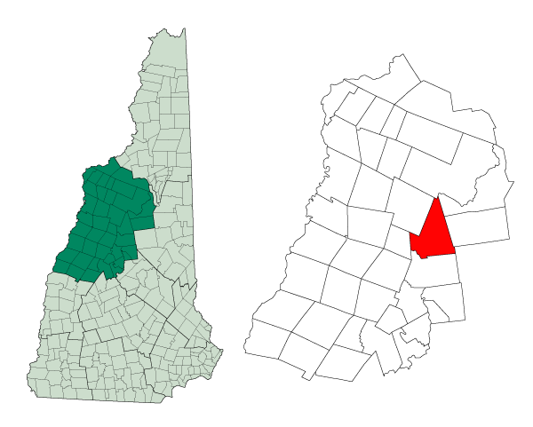 Map of a municipality in Belknap County, New Hampshire